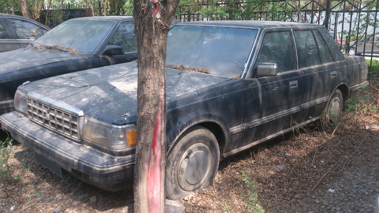 Toyota Crown S120 photographed in Beijing, China.